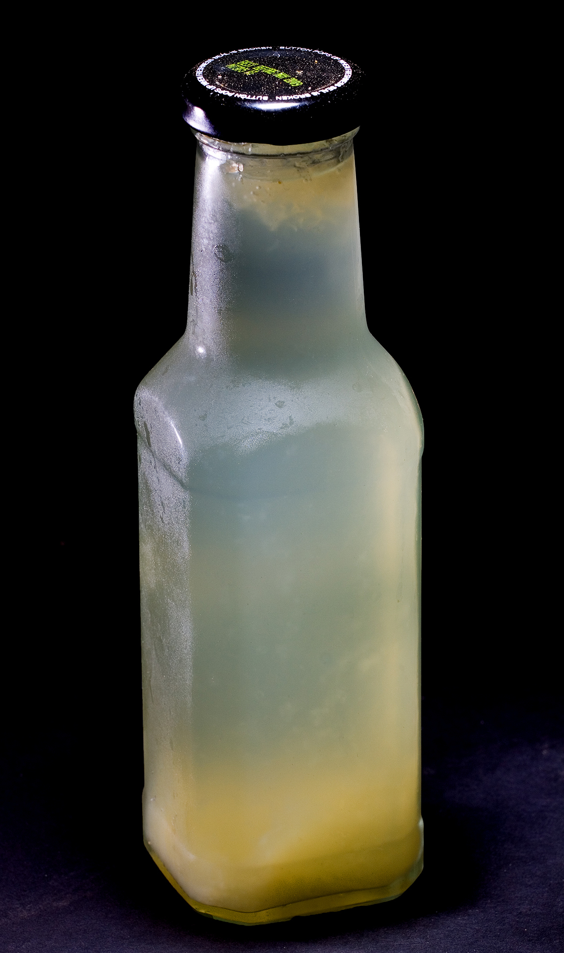 "Cloudy" Lemonade, a mixture of lemon juice, sugar, and uncarbonated water Camera data Camera Canon EOS 400D Lens Canon EF 70-200mm f4L w/ 12mm extension tube Flash Flashes rear left and on top Focal length 113 mm Aperture f/11 Exposure time 1/200 s Sensivity ISO 100